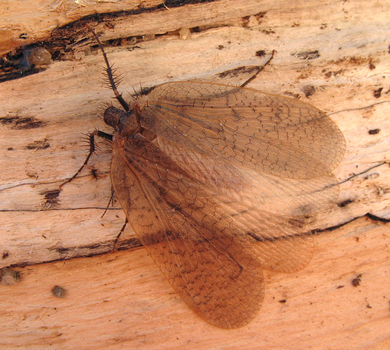 Nothiotauma reedi Chile: Reg. X: Parque Oncol